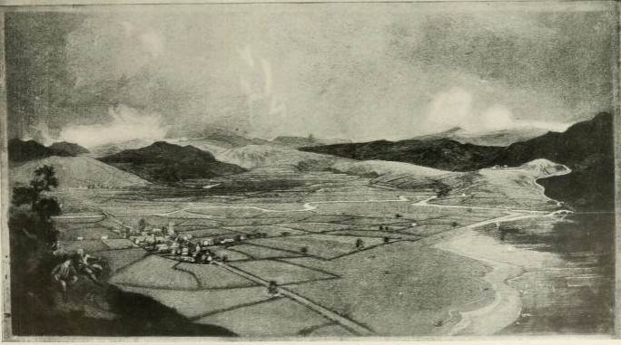 Untitled landscape, mezzotint after Sardu: Sir Digby Neave, 3rd Baronet .